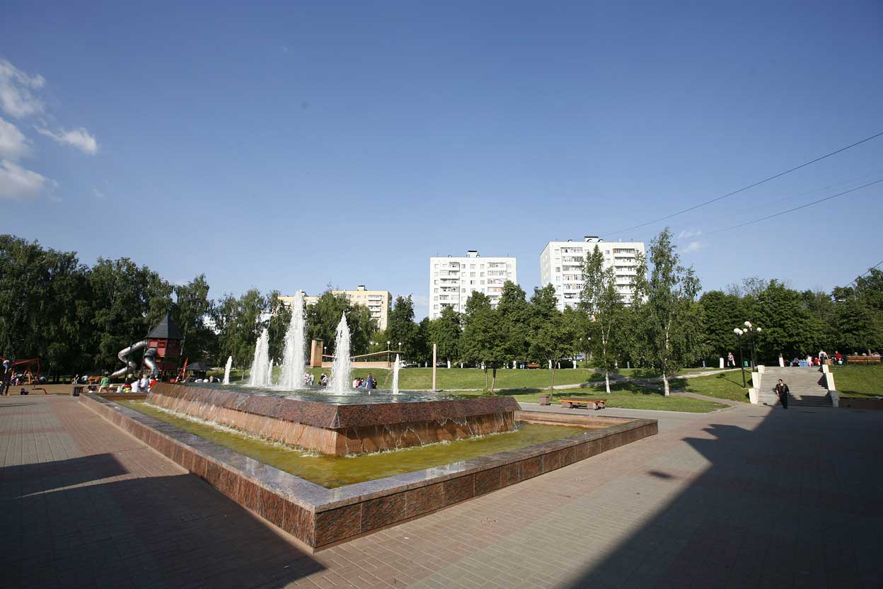 Vidnoe fountain 1